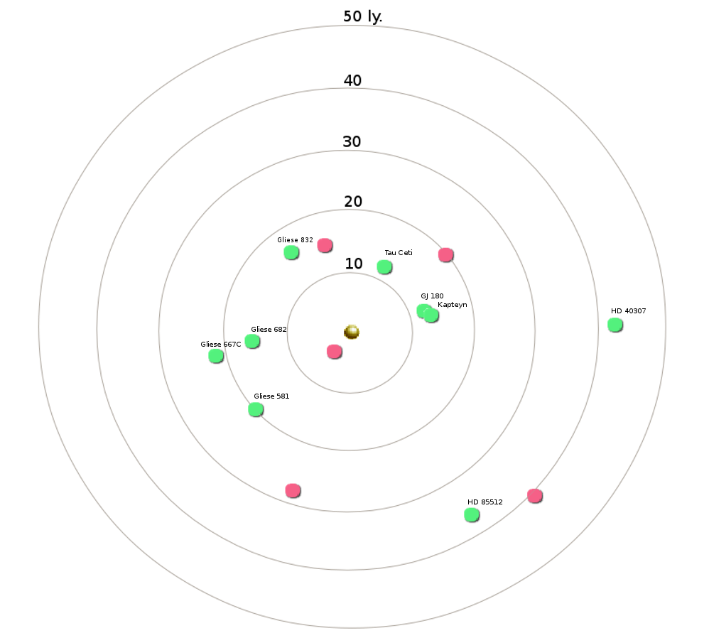 Nearest stars with terrestrial ("rocky") exoplanets candidates at a distance of up to 50 light-years from the Solar System. - at least one of terrestrial exoplanets in the system lying inside the star's habitable zone (names of host stars also shown) - terrestrial exoplanets, but outside the habitable zone Positions of the dots represent a distance of the host star from the Solar System and a right ascension of the host star. They don't represent distances between host stars. Right ascension: clockwise, from the upper point of the diagram. Note: There is still some uncertainty among scientists about terrestrial composition or habitability of most of exoplanets. Sources listed below confirm the possibility of terrestrial composition and habitability. Sources: [1] [2] [3] [4] [5] [6] [7] [8] [9] [10] [11] [12] [13] [14]